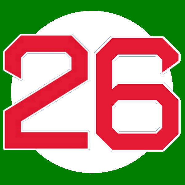 Red Sox retired numbers as hung on the right-field facade during the 2016 season in Fenway Park